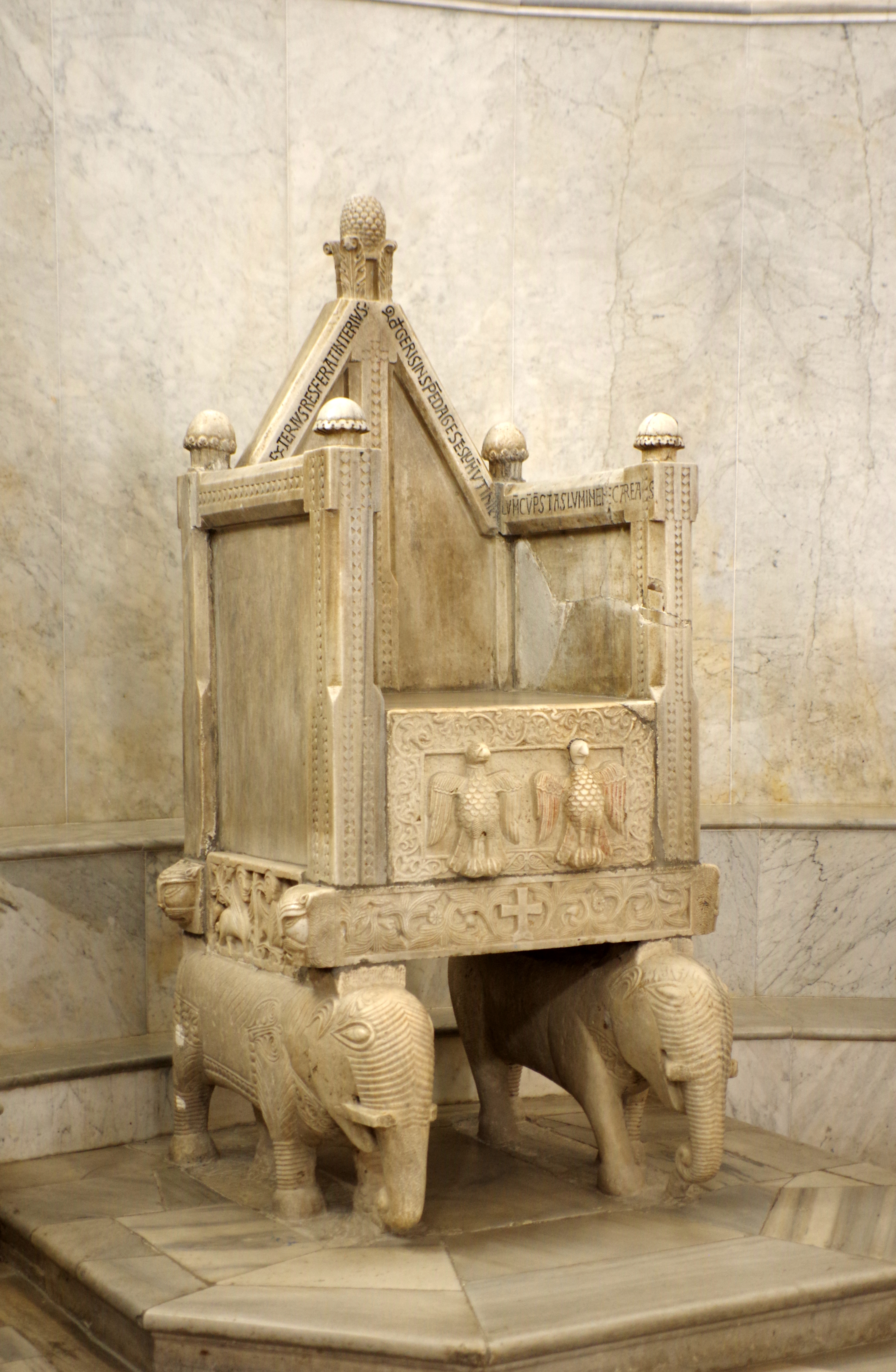 Italy, Canosa di Puglia, San Sabino cathedral, cathedra